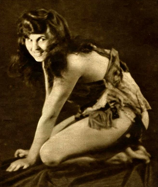 Actress Marion Aye (1903–1951) in "rag costume" on page 36 of the December 1921 Screenland.